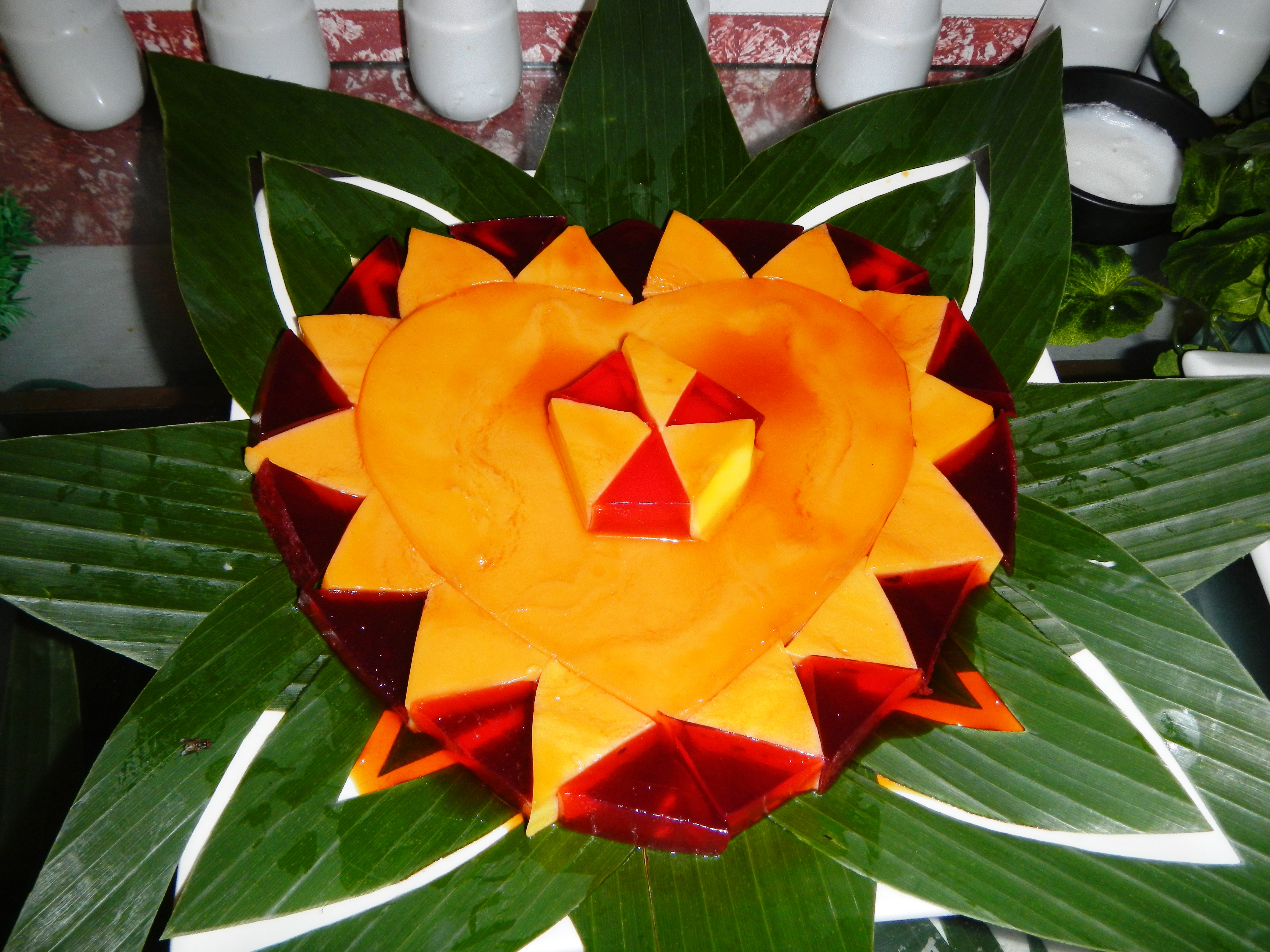 Buffets in the Philippines All-you-can-eat (AYCE) Buffet Catering in Bulacan, Philippines (Barangay Bagong Nayon, Baliuag, Bulacan restaurant, along Cagayan Valley Road in Pan-Philippine Highway).